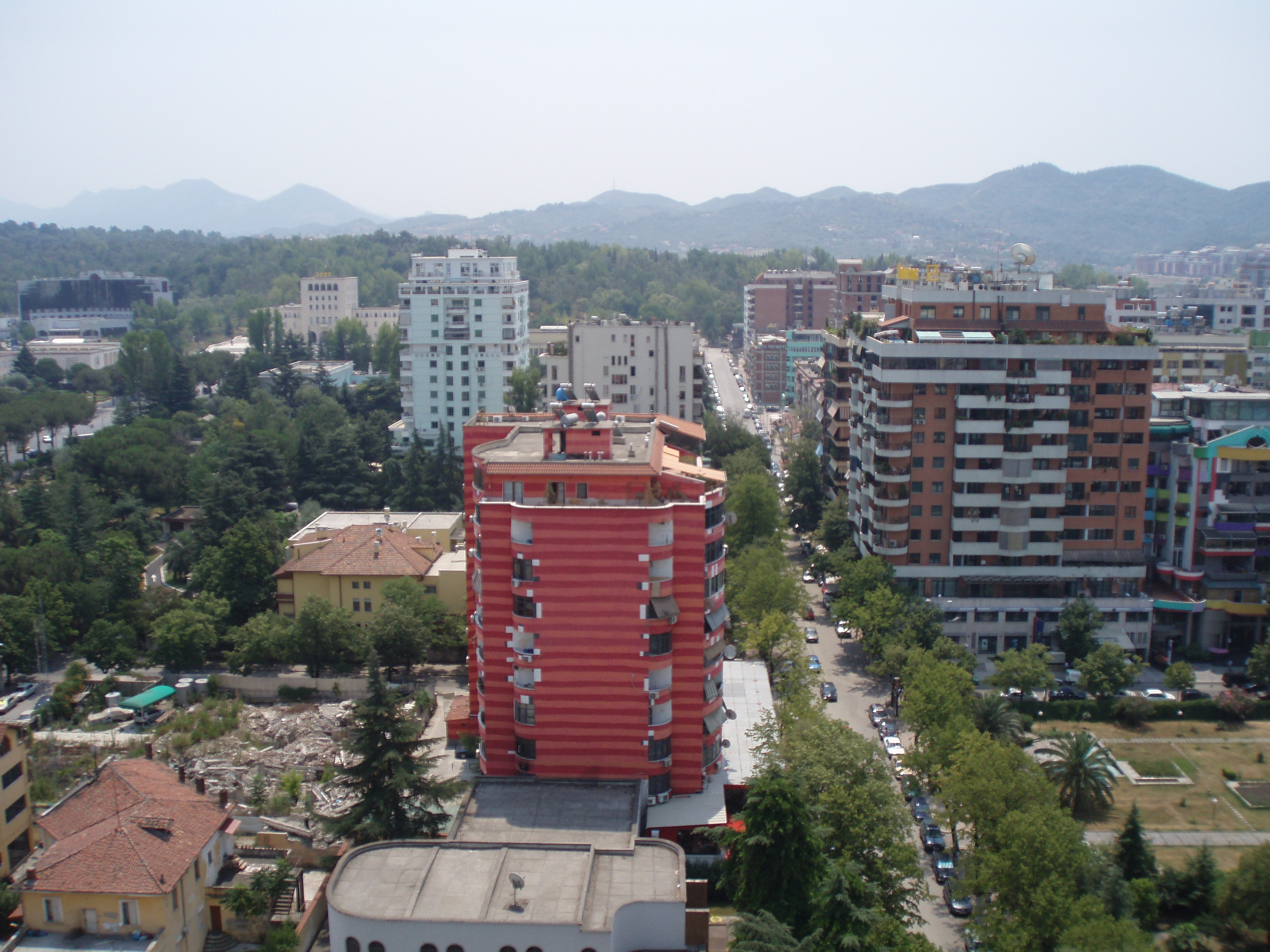 Tirana. View from Sky Tower.